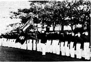 This is a picture taken of Raimundo Díaz Pacheco commanding the Nationalist Cadets on December 15, 1947. Photo was taken for the December 16, 1947 edition of the newspaper El Imparcial. In accordance to the "Copyright Term and the Public Domain in the United States, 1 January 2009" [1] Images published with notice but copyright was not renewed from 1923 through 1963 are public domain due to copyright expiration. "El Imparcial" which went out of service 35 years ago, could not have renewed it's copyright which expired. Therefore, since Puerto Rico fell under US copyright in 1947 as well as today, this would make the image public domain.